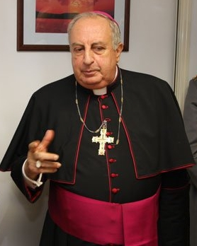 Mons. Salvatore Nunnari, Archbishop of Cosenza-Bisignano, Italy